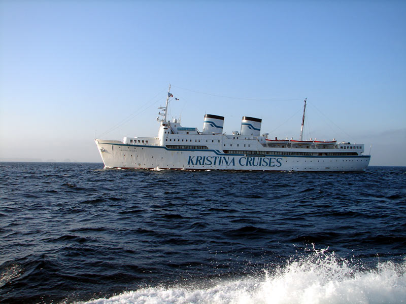 The cruise ship Kristina Regina arriving in Brest. IMO number: 5048485 Call sign: OGBF. MMSI number: 230132000. Built by Oskarshamns varv, Sweden in 1960 as # 353. Former names: Vanderbilt (Though she never sailed under that name; the transaction was cancelled) Borea Bore.